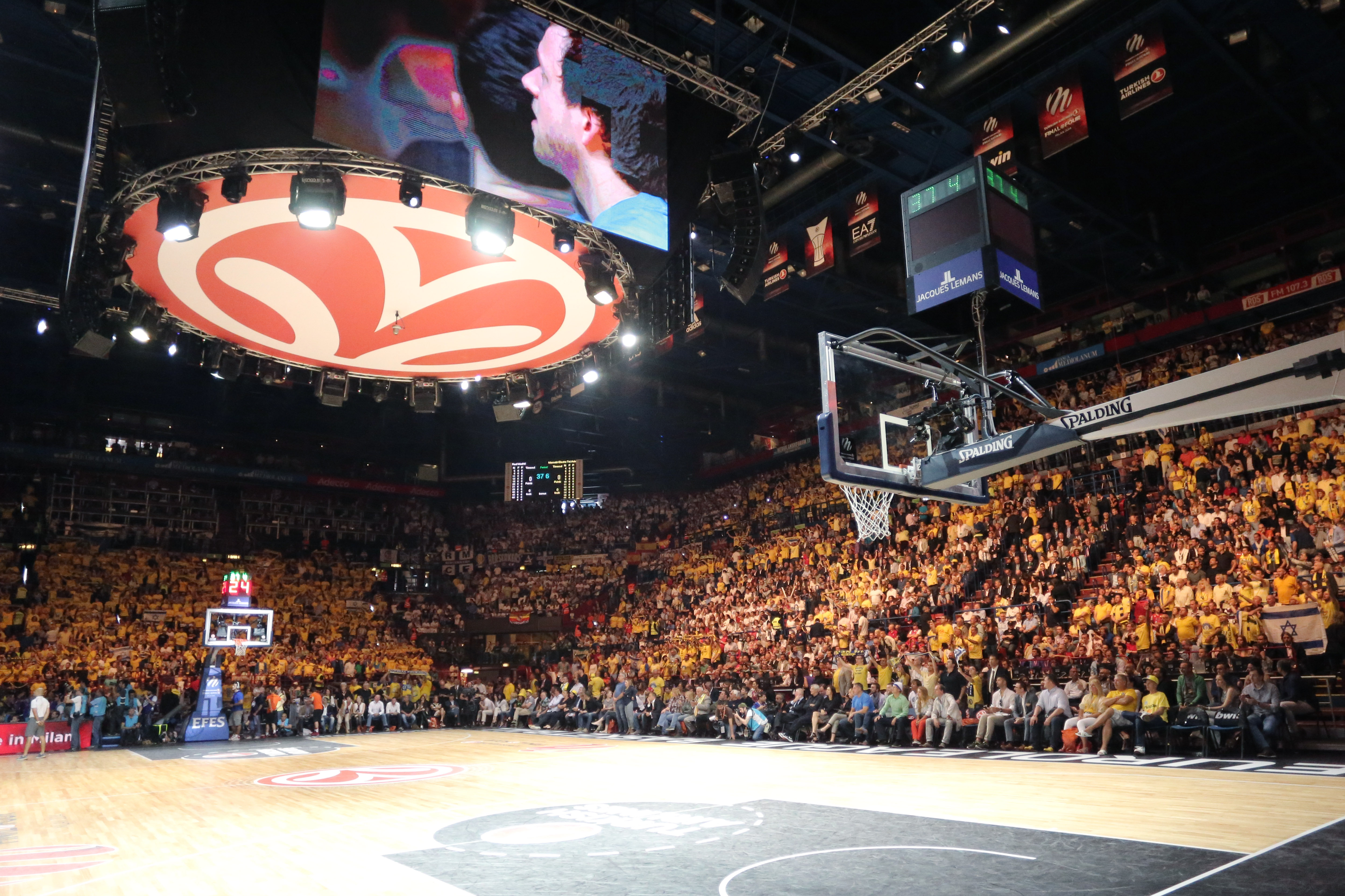 Maccabi supporters at Forum di Assago during Euroleague 2014 final.